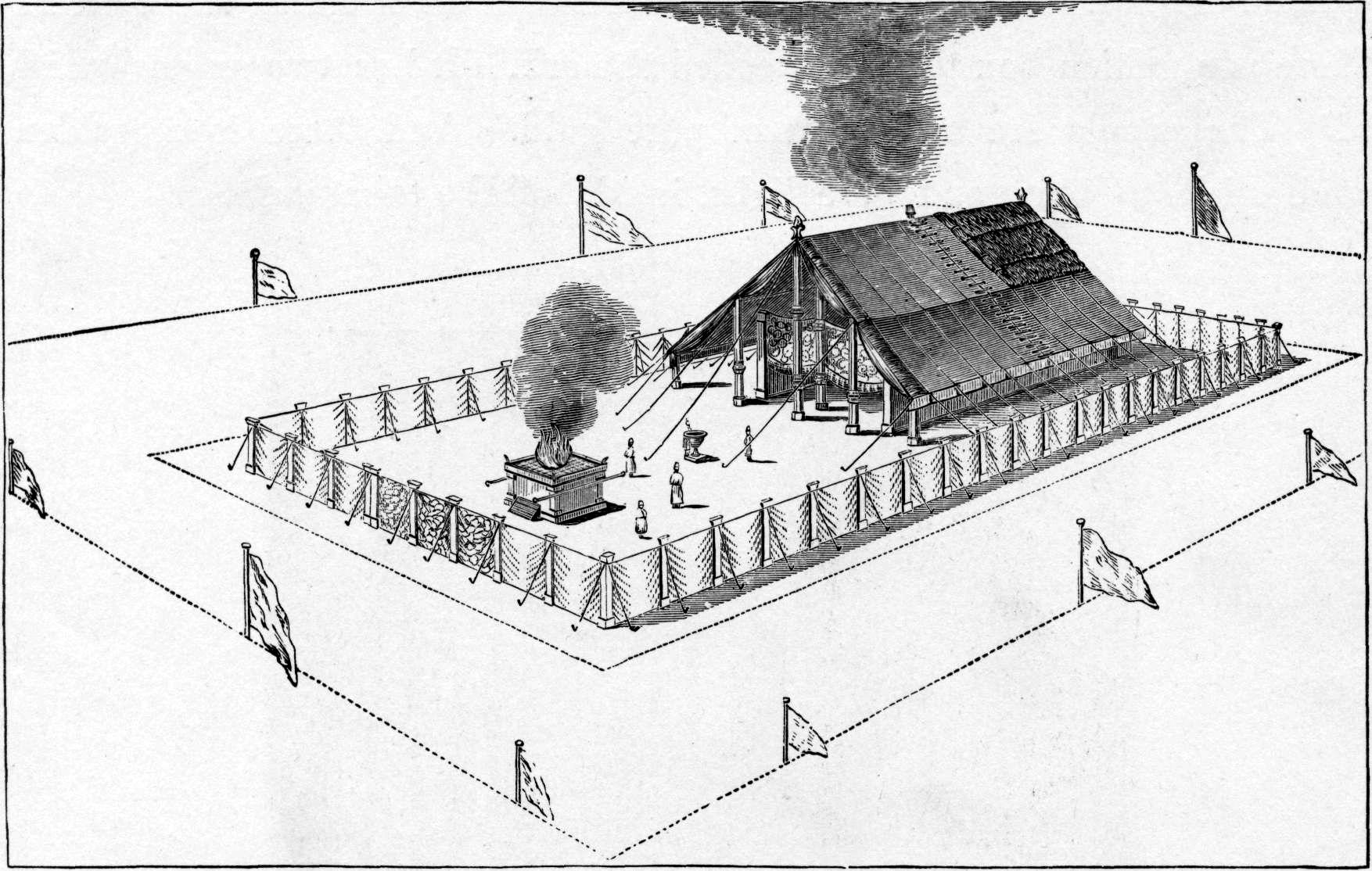 The Tabernacle that the Israelites Built. Caption: "This is the tabernacle, or church, that the Israelites built. God told them how to build it. It is something like a tent. There are posts or pillars along its sides. Curtains are spread over these for its roof. The curtains are of different colors, and some of them have beautiful embroidered work on them. The fence around the tabernacle is made in the same way, of curtains fastened to pillars. When the Israelites want to go on their journey they take the tabernacle down and carry all the different parts of it to the place where they are going to make their camp. Then they set it up in the middle of the camp where all the people will be. The tabernacle is a very holy place, because the ark is kept in it, and because the cloud of the Lord always rests above it. No one can go into the tabernacle except the priests, The people say their prayers outside of it. The flags in the picture show where the people put up their tents all around the tabernacle." Illustration from the 1897 Bible Pictures and What They Teach Us: Containing 400 Illustrations from the Old and New Testaments: With brief descriptions by Charles Foster